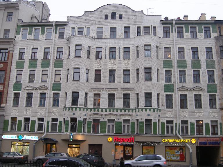 60, Chkalovsky prospect, St.Petersburg, Russia